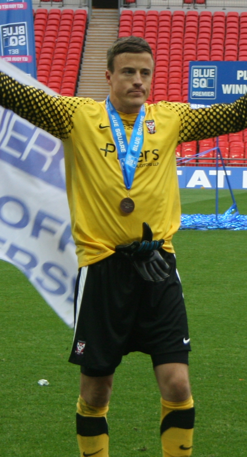 Michael Ingham after playing for York City against Luton Town at Wembley Stadium, London on 20 May 2012